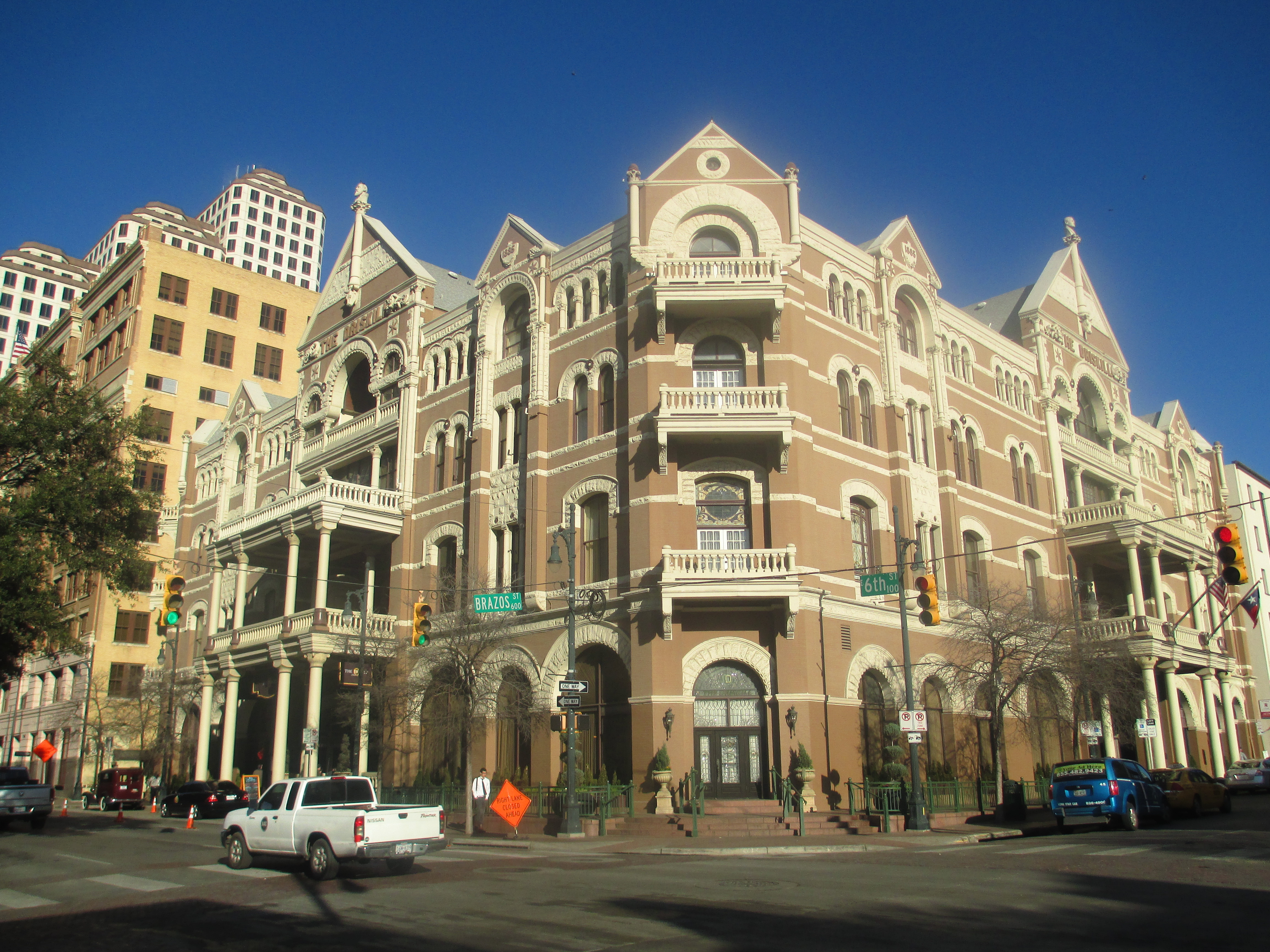 Driskill Hotel, Austin, TX, Jan. 21, 2013, Canon camera